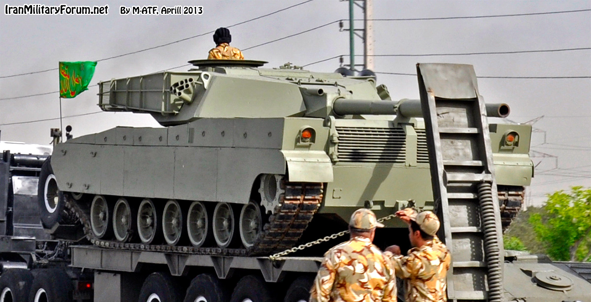 IRIA Zulfiqar-3 main battle tank @ Iran Military Day 2013